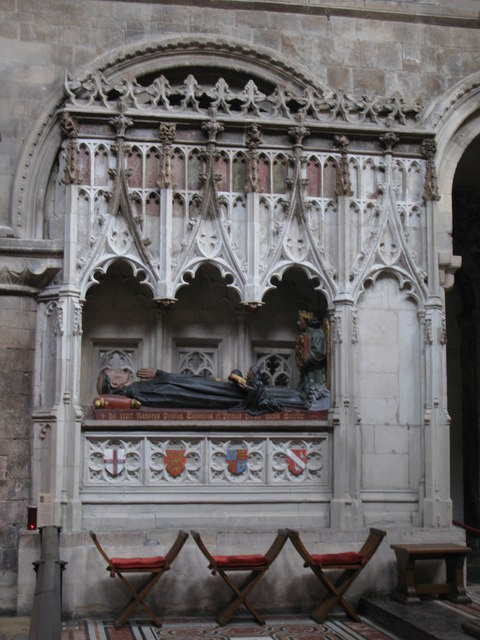 St. Bartholomew the Great - the Founder's tomb, near to London, City of London, Great Britain. The tomb of Prior Raher, north of the high altar, dates from 1405. Rahere was a courtier and favourite of King Henry I. It is thought that it was the death of the king�s wife Matilda, followed two years later by the drowning of their heir Prince William, his brother, half-brother and sister, that prompted Rahere to renounce his profession for a more worthy life and make a pilgrimage to Rome. In Rome, like many pilgrims, he fell ill. As he lay delirious he prayed for his life vowing that, if he survived, he would set up a hospital for the poor in London. His prayers were answered and he recovered. As he turned for home the vision of Saint Bartholomew appeared to him and said �I am Bartholomew who have come to help thee in thy straights. I have chosen a spot in a suburb of London at Smithfield where, in my name, thou shalt found a church.� {Source Link }